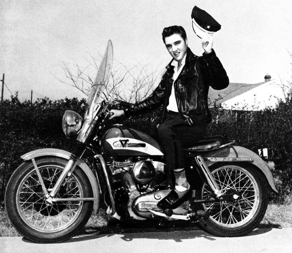 Elvis Presley and Harley-Davidson